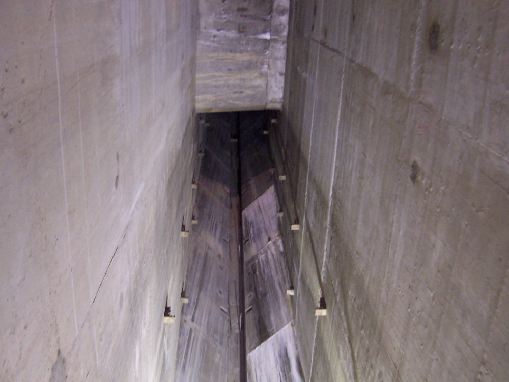 Inside the Clyde dam expansion joint looking towards the lake, a large stainless steel wedge pushes between what is effectively two separate dams to form a watertight seal and allow movement between the two pieces. Taken by myself on 31/10/2006.